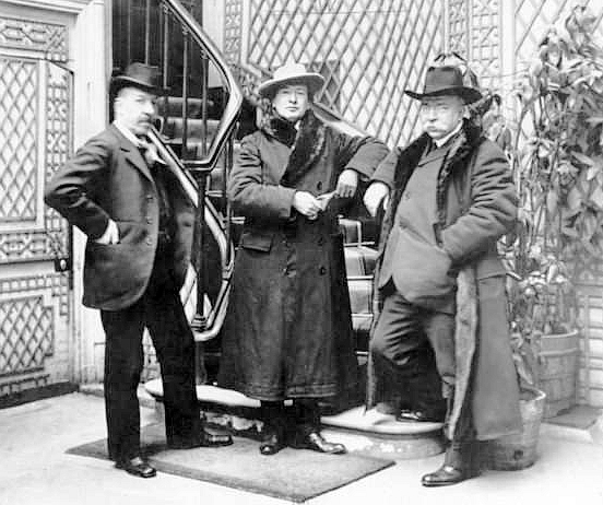 From left to right: Charles-Marie Widor (1844-1937), Ferruccio Busoni (1866-1924), Isidor Philipp (1863-1958) at the Restaurant Foyot, Place de l'Odéon, Paris, ca. 1910.